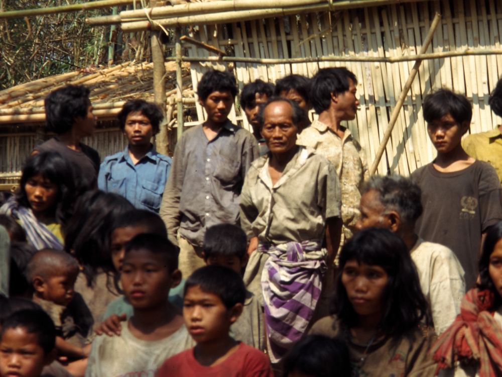 The Mlabri of Thailand: Their history holds a lesson for anthropologists in that they are hunter-gatherers whose ancestors practiced agriculture.